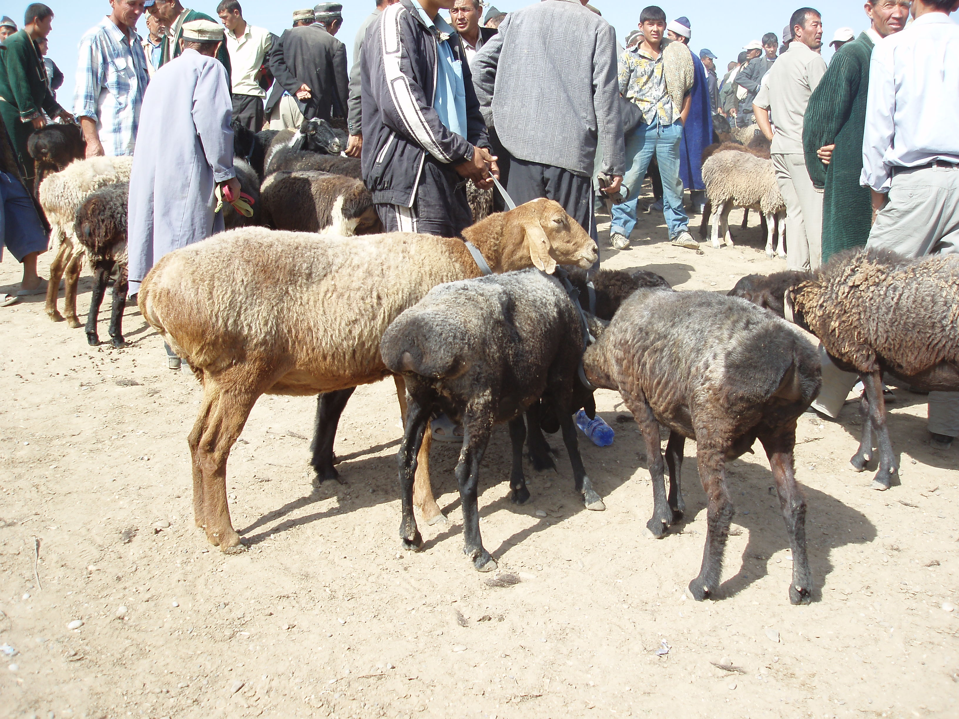 Fat-tailed sheep at a cattle market near Chiroqchi, Uzbekistan